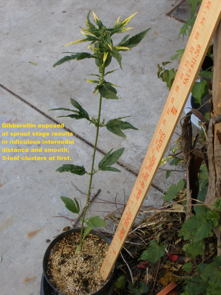 Cannabis plant exposed to gibberellic acid showing increased internodal distance and modified leaf morphology. Untreated normal plants show 10x smaller internodal distances.